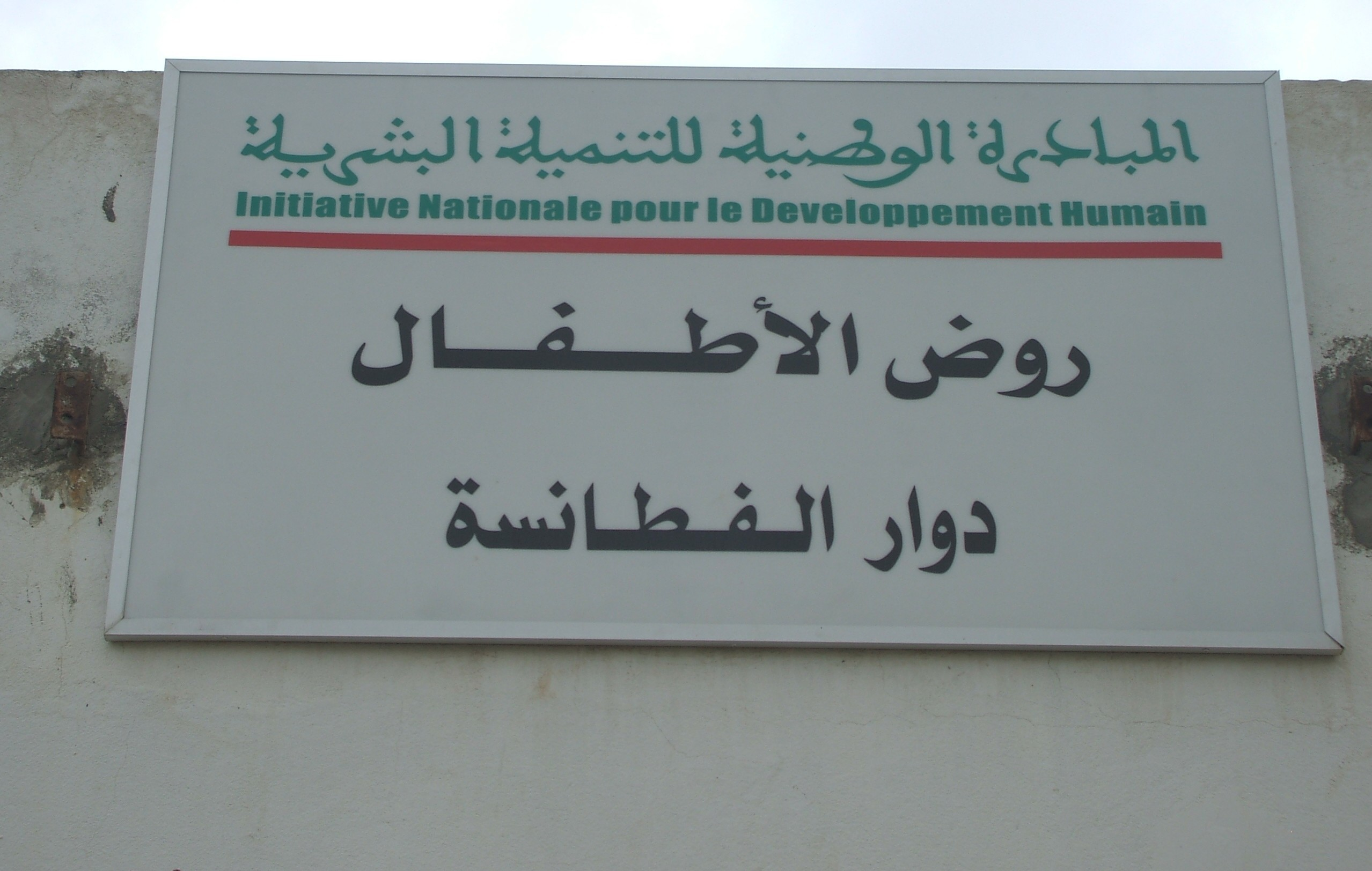 Nursery at Douar Ftansa (ou Fatanissa)